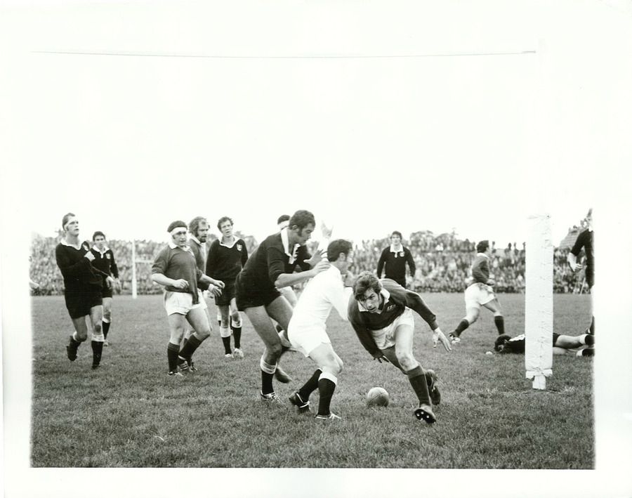 Images from NZ Archives Flickr albums Images uploaded in collaboration between WMUK and the University of Edinburgh